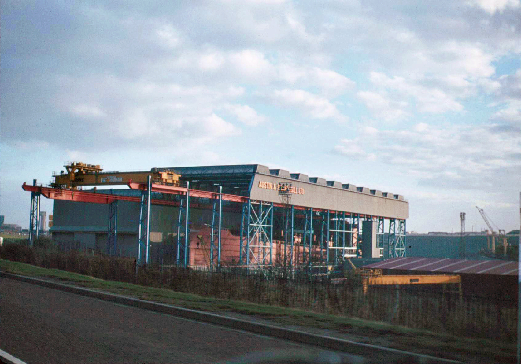 The Motor Vessel Murree in Sunderland's Austin & Pickersgill shipyard on the day of its launch on 5th December 1981.